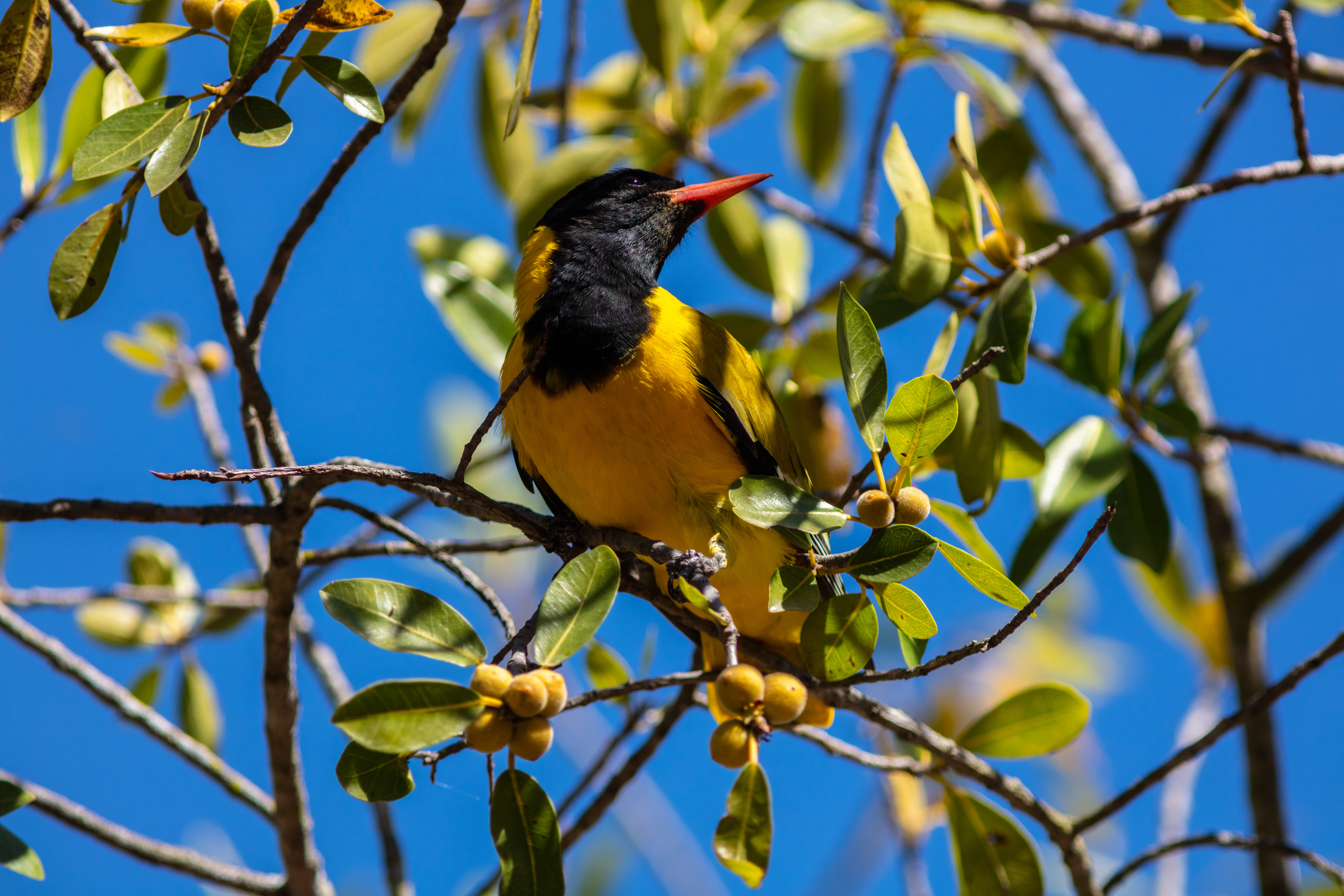 Black-headed oriole (Oriolus larvatus), Kruger National Park, South Africa